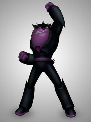 Digital fan art piece of Loonatics Unleashed animated series.